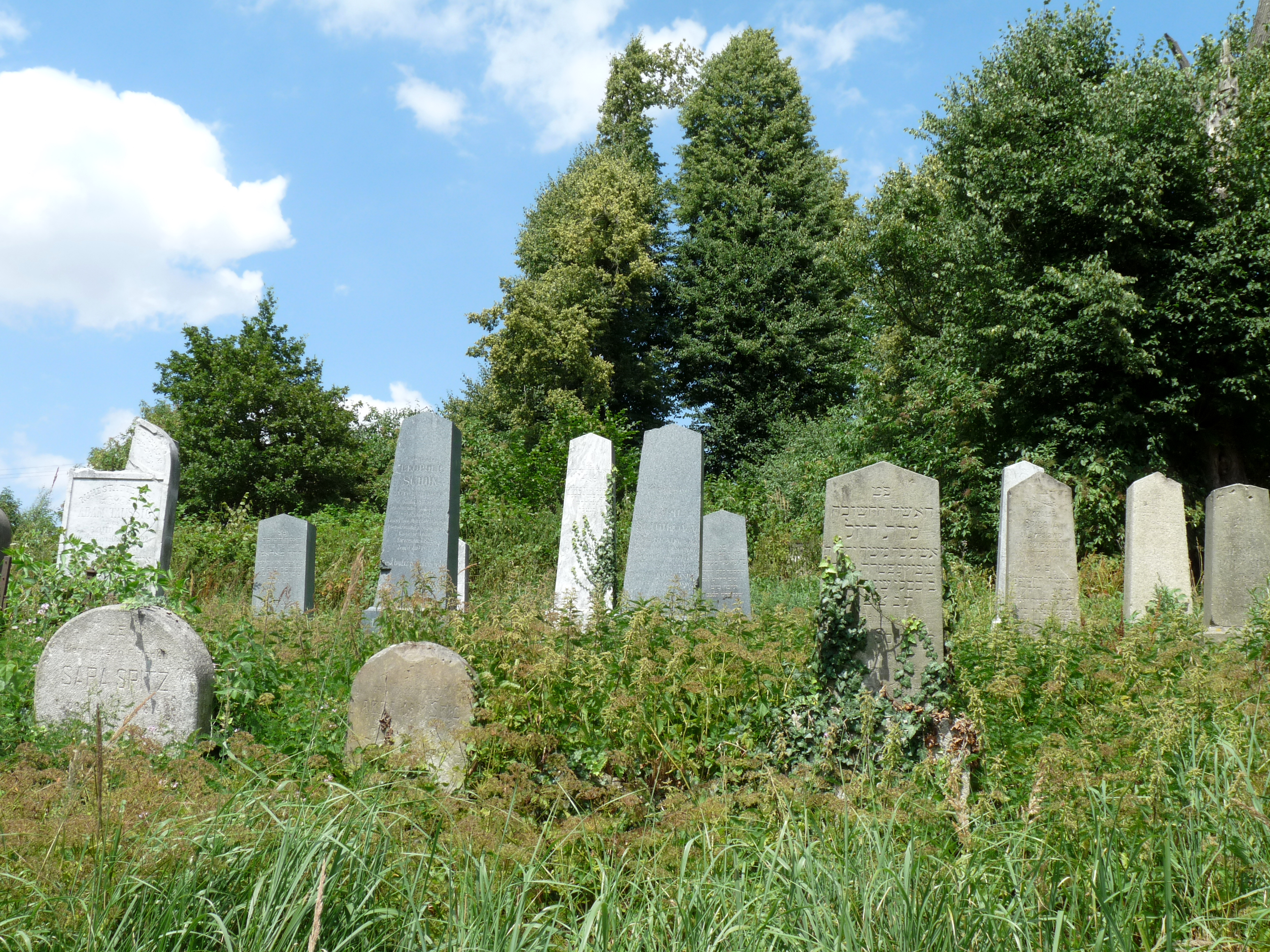 Gravestones in the Jewish cemetery in Zbraslavice, Kutná Hora District, Central Bohemian Region, Czech Republic.